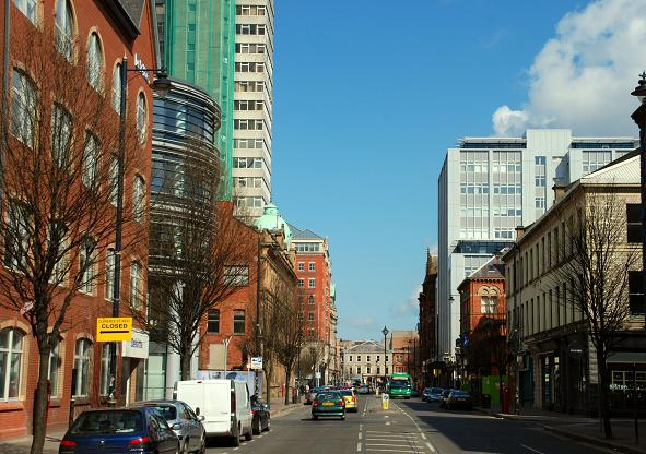 Bedford Street, Belfast Bedford Street runs from the Dublin Road to Howard Street and Donegall Square West. In times past any linen company of any standing had, at least an office, if not a warehouse, here. Now it is devoted to administration and eating. A major development is planned for the vacant site beyond the white and grey vans on the left.